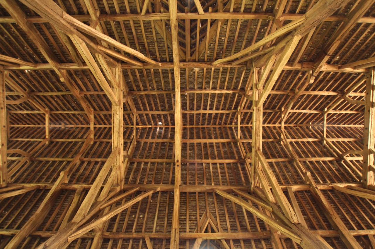 The centre of the roof of the Mediæval barn at Great Coxwell, Oxfordshire (formerly Berkshire), seen from below